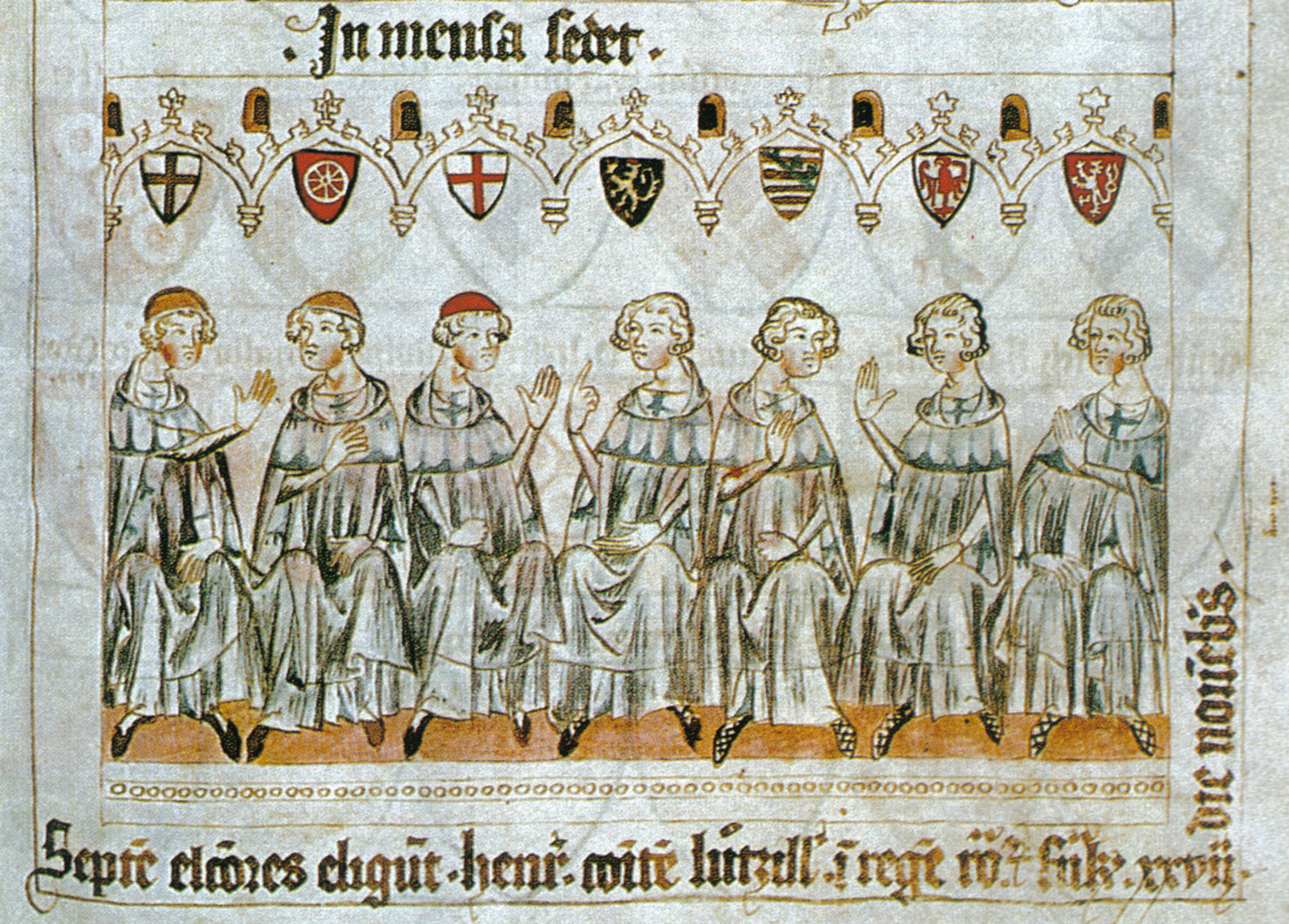 "The seven electors choose Henry, Count of Luxembourg, as King of the Romans at Frankfurt on the 27th day of November." The "Seven Prince Electors" electing Henry VII, Holy Roman Emperor. The electoral princes, identified by the coat of arms above their heads, from left to right are the archbishops of Cologne (Heinrich II. von Virneburg), Mainz (Peter von Aspelt), and Trier (Balduin von Luxemburg), the count palatine of the Rhine (count of former Electorate of the Palatinate) (Rudolf I. (Pfalz)), the duke of Saxony (Rudolf 1. (Sachsen-Wittenberg)), the margrave of Brandenburg (Waldemar (Brandenburg)), and the king of Bohemia (Heinrich von Kärnten). Pen-and-ink miniature from the picture chronicle of Henry VII (Balduineum). Drawing on parchment from 1341; today at public main federal state record office in Koblenz, Germany.